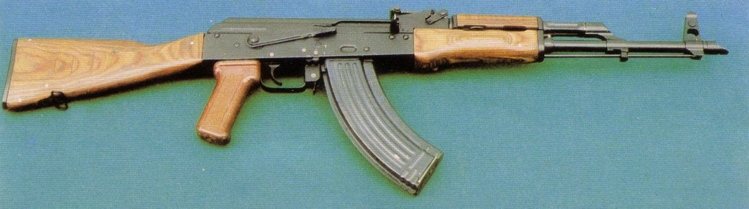 AKM assault rifle